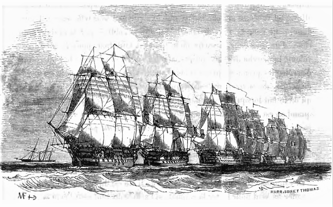 A line of battle. Illustration from La Marine, by Pacini.